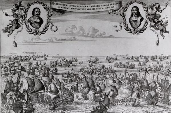 Drawing of the Vierdaagse Zeeslag with admiral Tjerk Hiddes de Vries (1666).